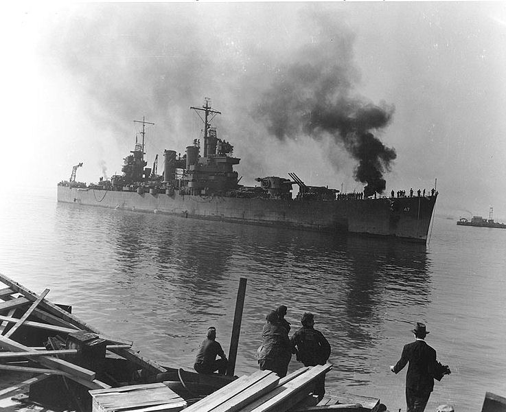 The U.S. Navy light cruiser USS Boise (CL-47) arrives at the Philadelphia Naval Shipyard, Pennsylvania (USA), in November 1942 for repair of battle damage received during the 11-12 October Battle of Cape Esperance. Note the forward 6"/47 triple gun turret trained to starboard. It was jammed in this position during the action, when a Japanese 8" shell hit the armored barbette just below the turret.